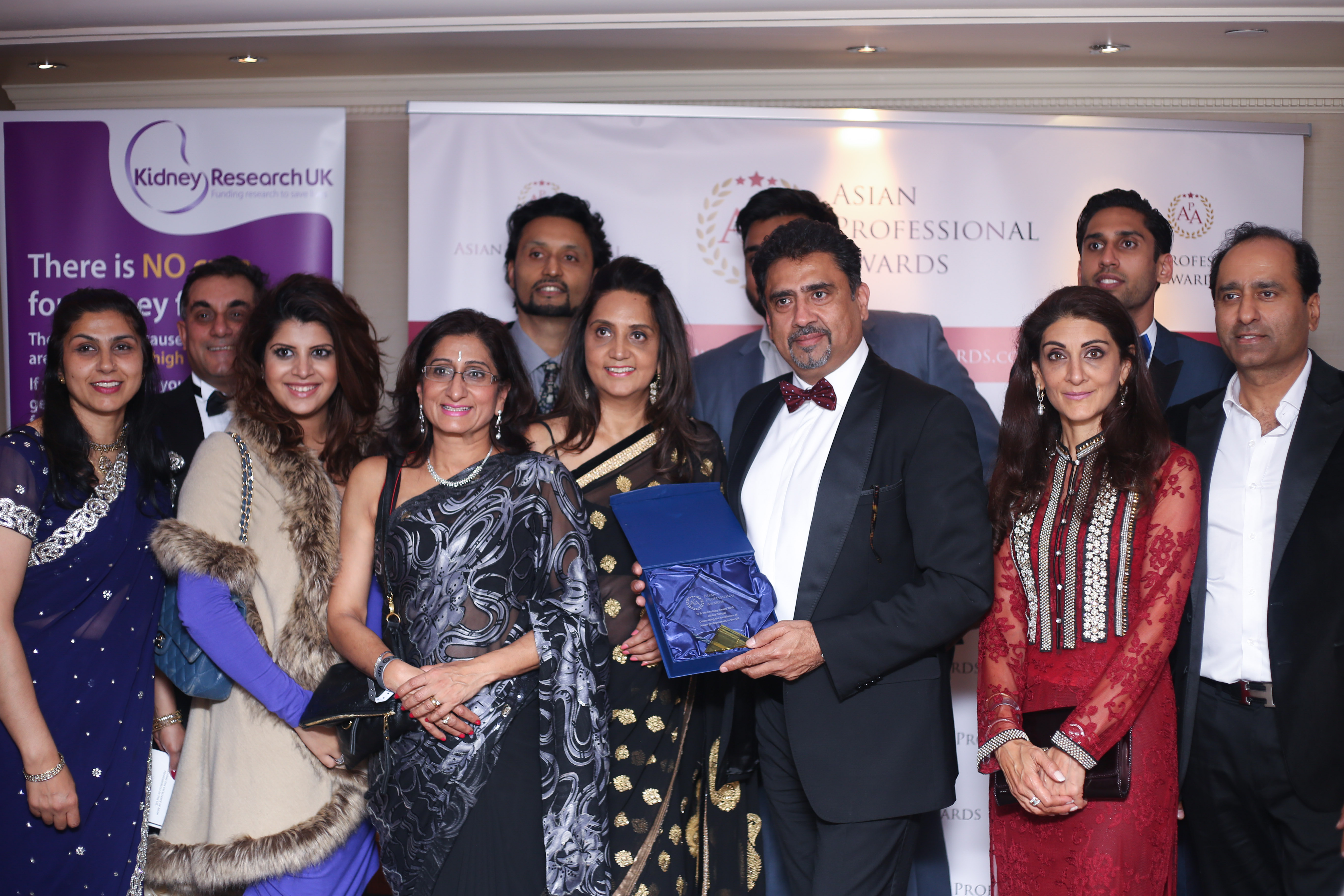 Asian business leader showcasing his awards at the Asian Professional Awards